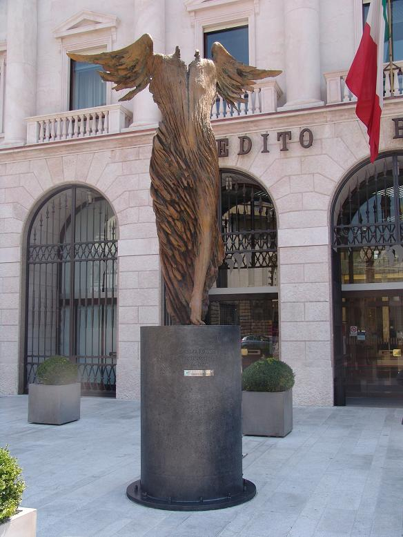 Anima Mundi (2011) in Bergamo, largo Porta Nuova